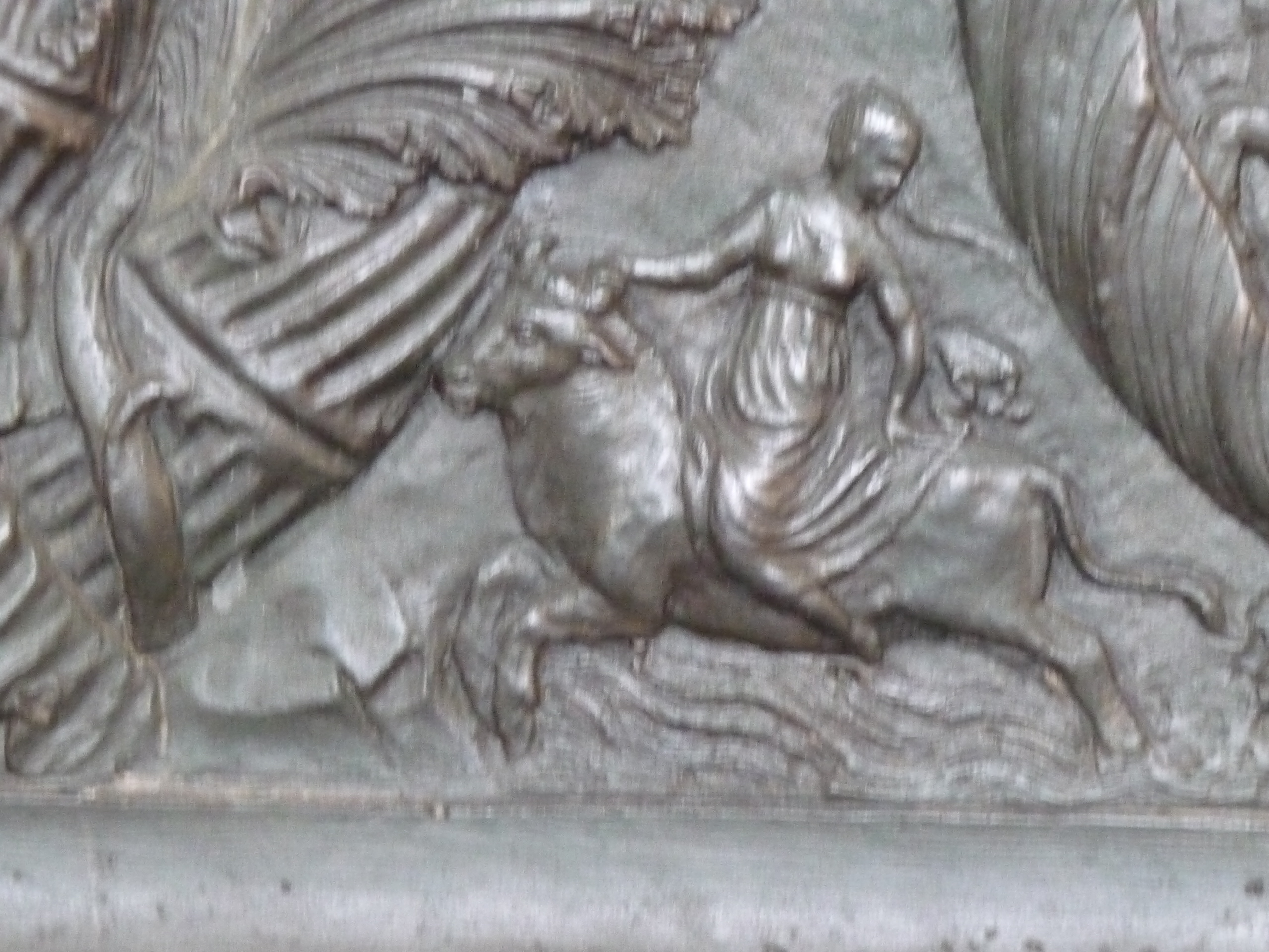 Portale del filarete, St. Peter, Rome. Detail: Abduction of Europe